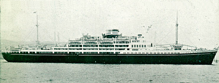 Argentina Maru Ship Type: Passenger/cargo Built by Mitsubishi, Nagasaki, Japan Yard No: 734 Keel: 5.2.38 Launch Date: 9.12.38 Date of completion: 31.5.39 Length overall: LPP: 157.3 Beam: 20.9 Tons: 12755 DWT: Speed: 21.5 kn History 1939 Named: Argentina Maru for Osaka Shosen K.K., Osaka Flag: Japan 1943 Renamed: Kaiyo 24.7.45 Bombed by aircraft 33.21N/131.32E & beached Beppu Bay